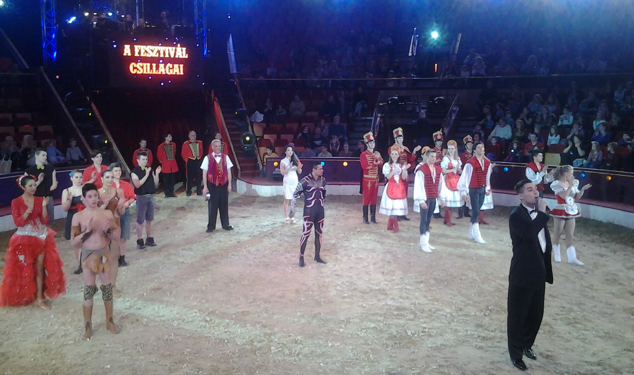 Finale in Capital Circus of Budapest.